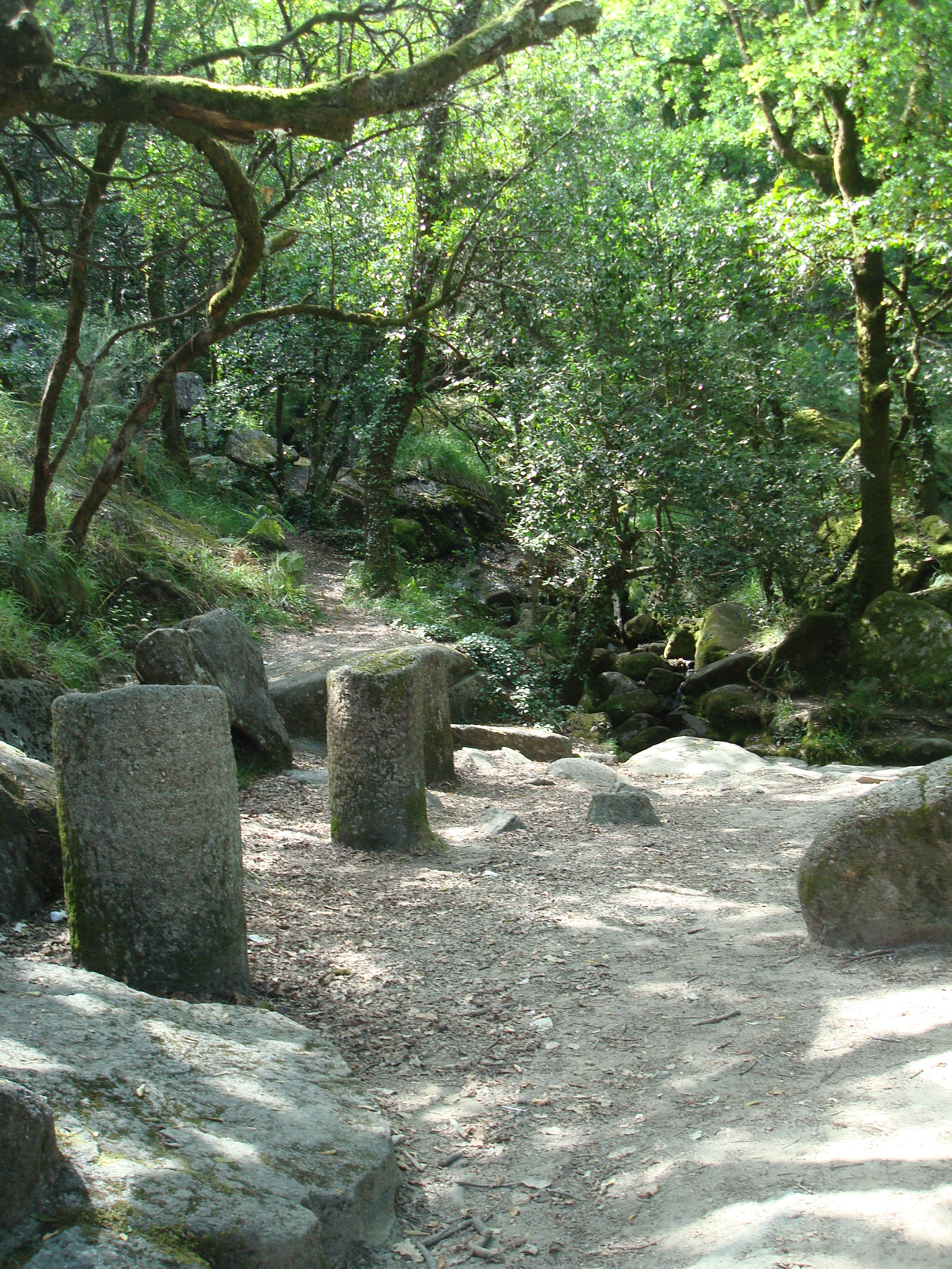 This is a photography of a Site of Community Importance in Portugal with the ID: PTCON0001. Natura2000 entry, EEA entry